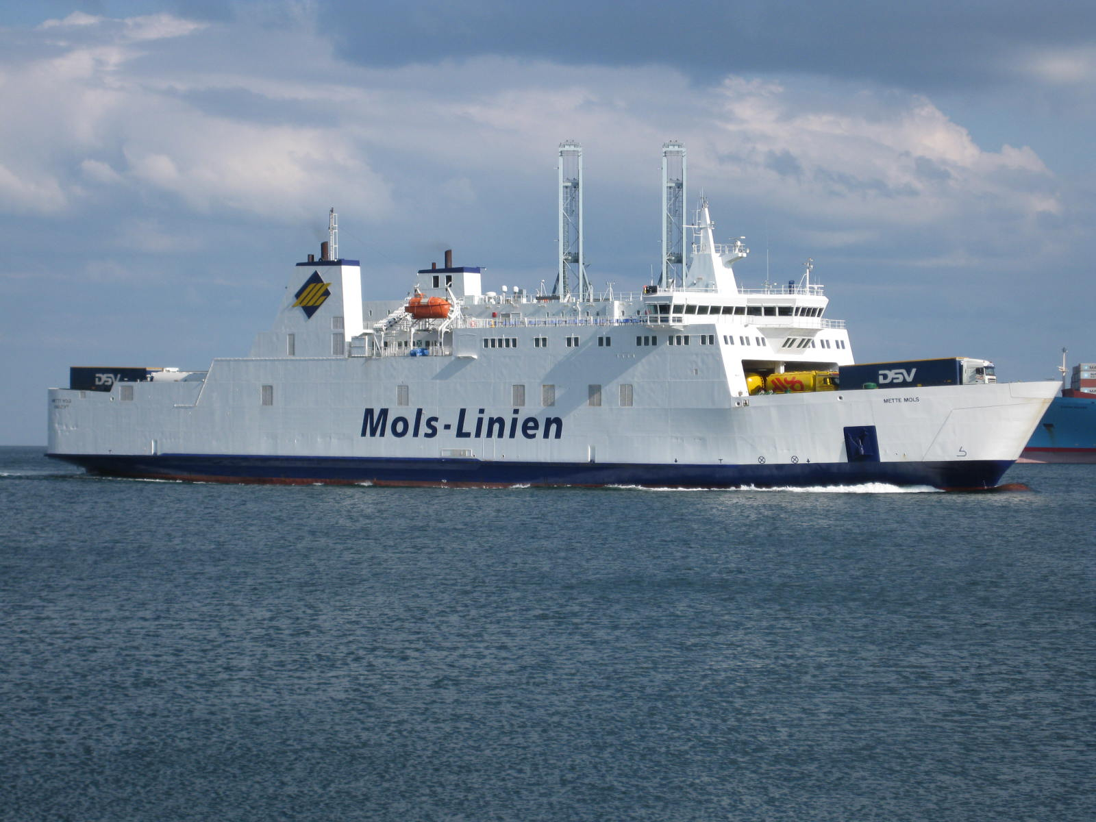 Mette Mols arriving at the port of Aarhus